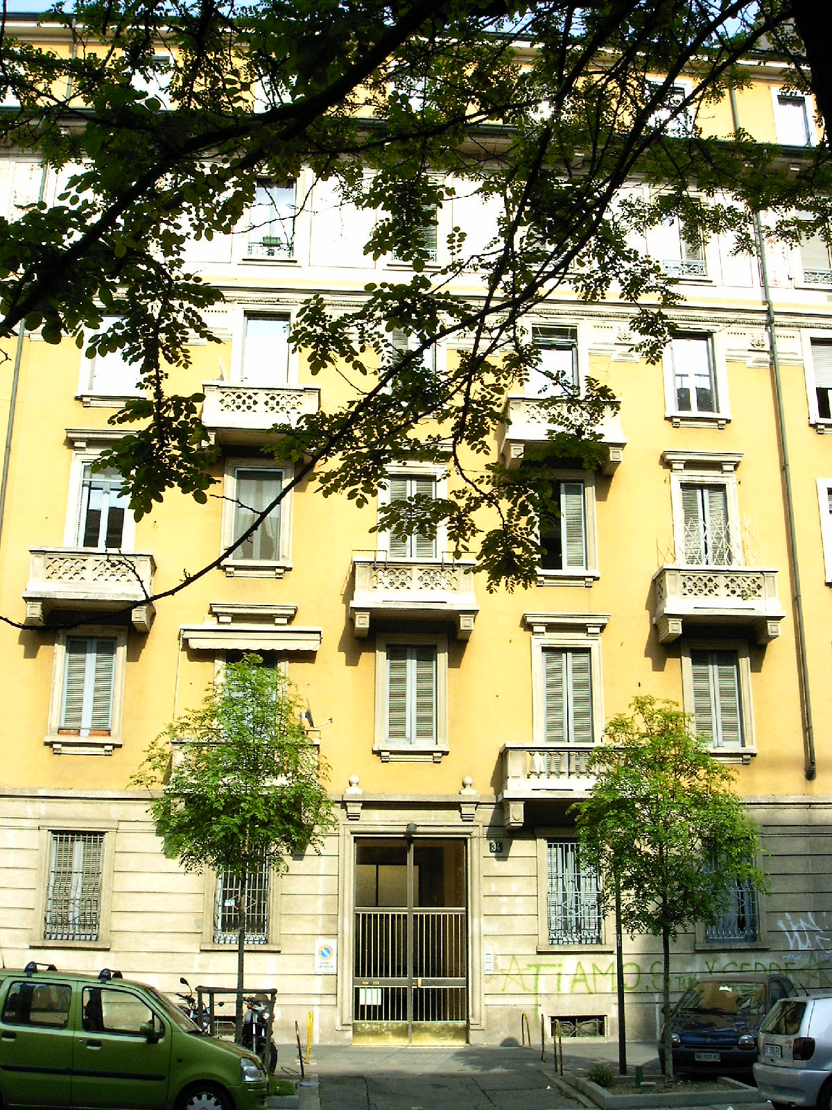 The house where Silvio Berlusconi was born: Milano, via Volturno 34